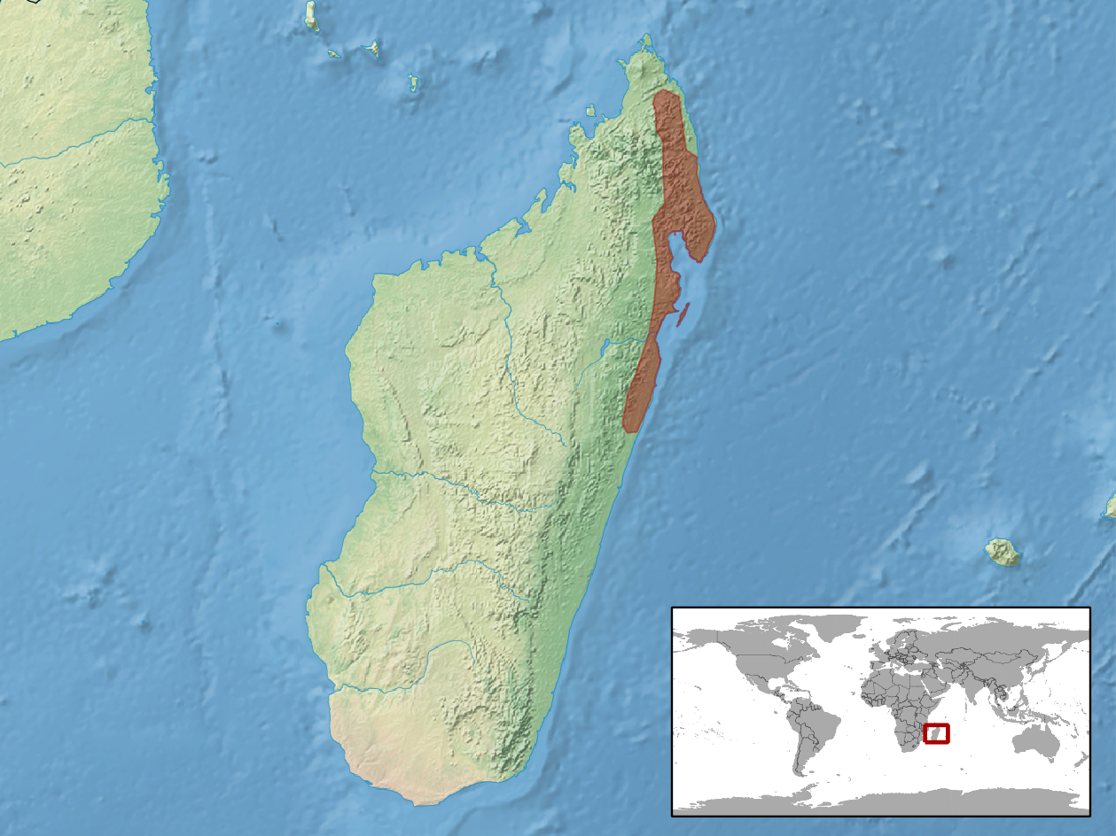 geographic distribution of Blaesodactylus antongilensis (Native: Madagascar)